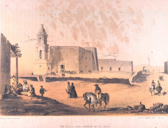 The Plaza and church of El Paso